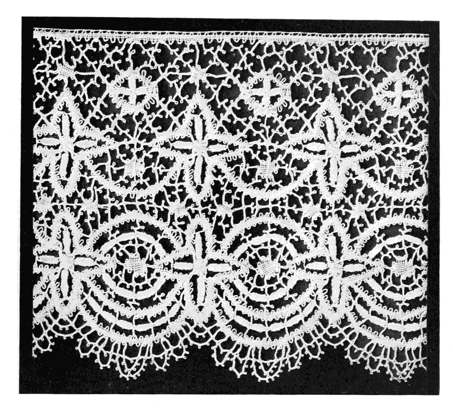 "Real Maltese."